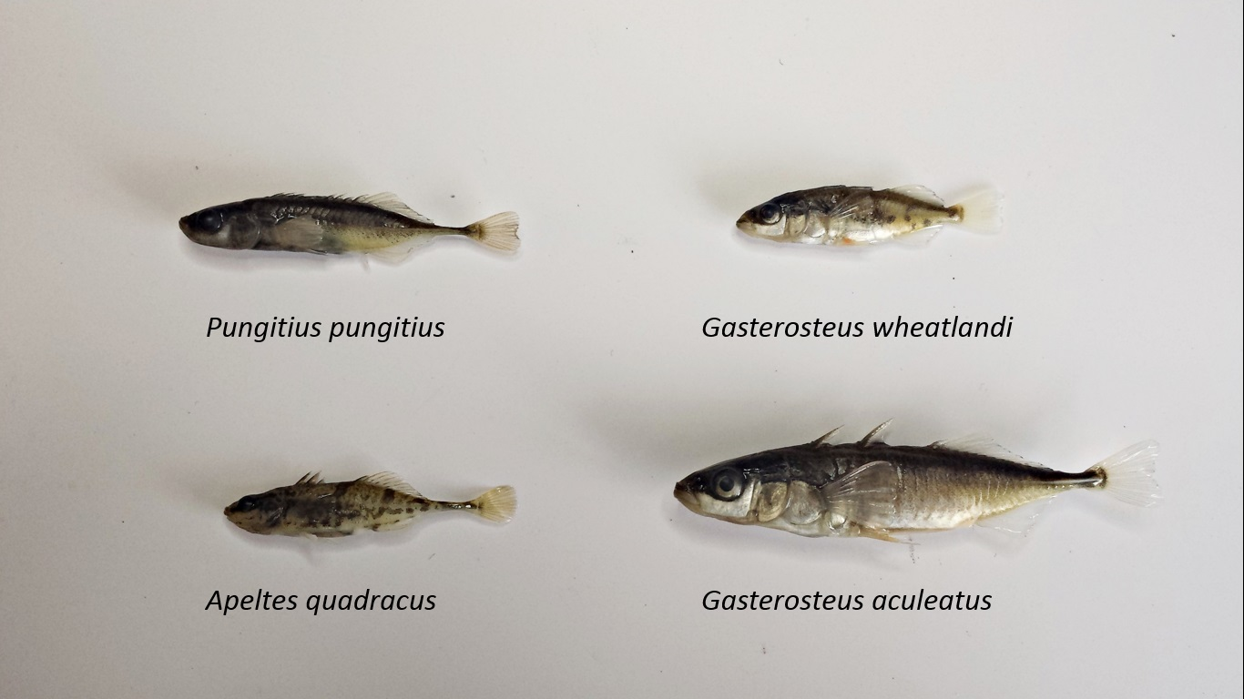 The four species of stickleback that inhabit the Atlantic coast of North America. These species are sympatric between Newfoundland, Canada and Long Island, New York, United States.